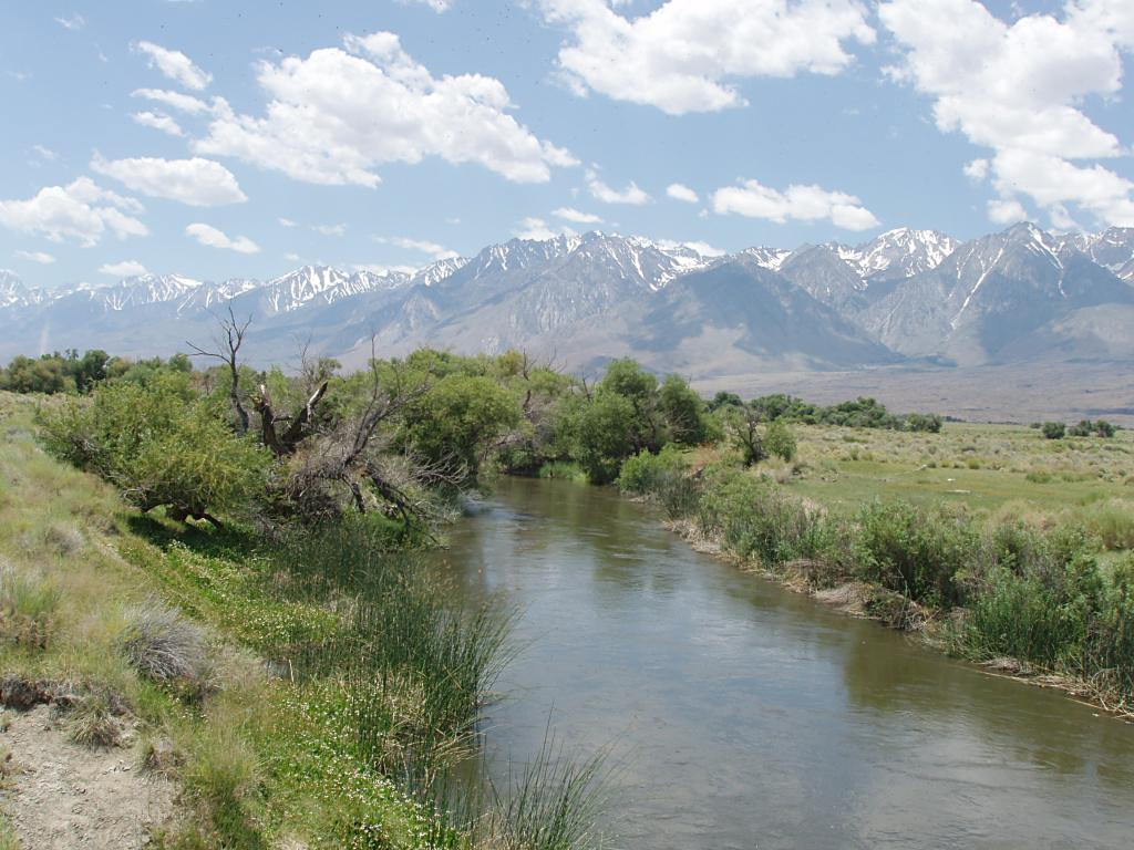 Owens River — South of Poverty Hills in the Owens Valley, the Eastern Sierra beyond. Photo by Richard E. Ellis]